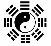 Tai Chi Pa Kua Tu, the diagram of Tai Chi with Eight Trigrams